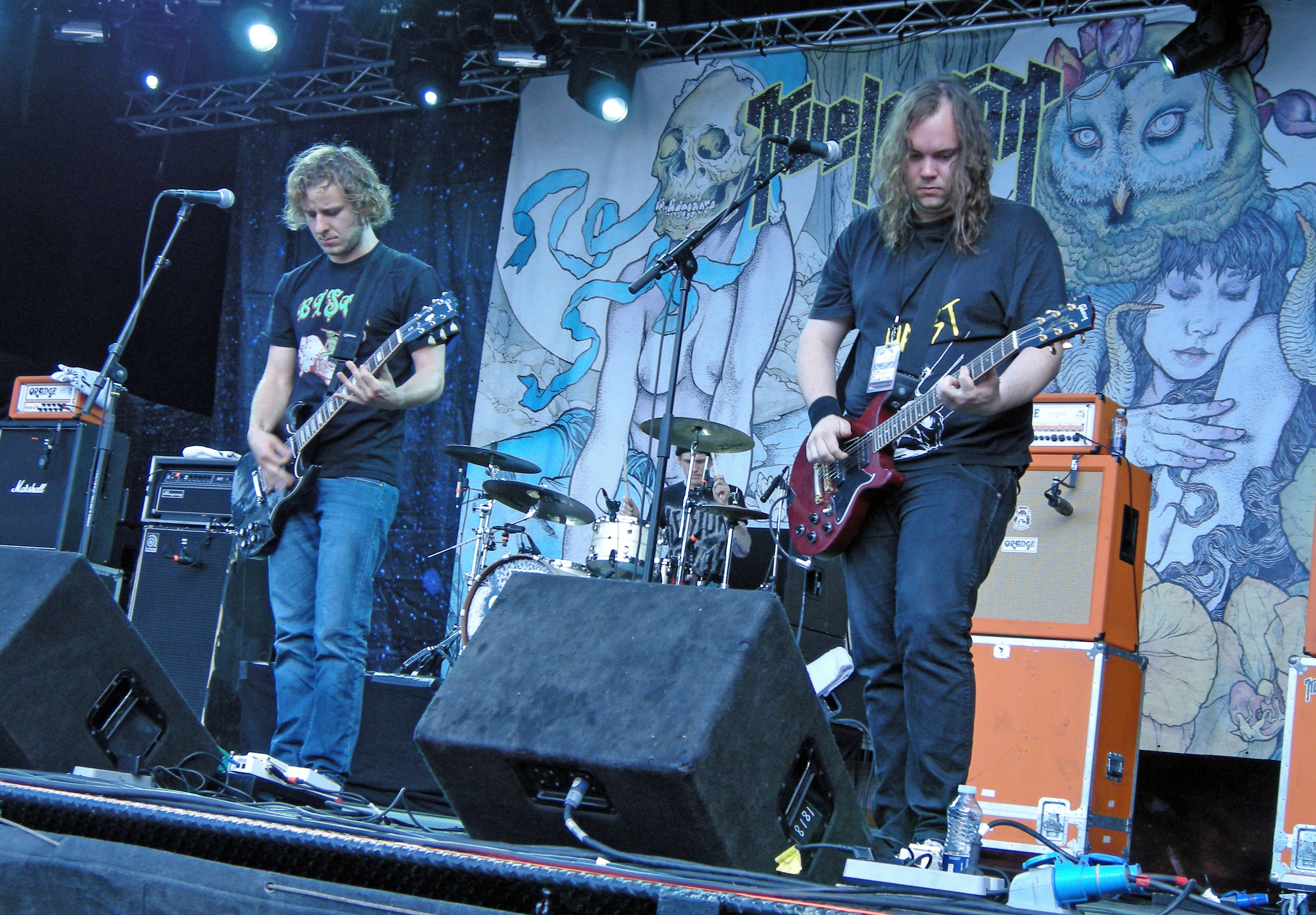 Norwegian band Kvelertak at Sonisphere Festival, Stockholm, Sweden 2011